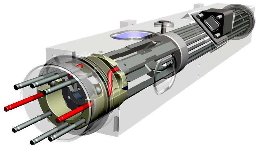 The Deep Space Atomic Clock (DSAC) is a miniaturized, ultra-precise mercury-ion atomic clock for precise radio navigation in deep-space. It is orders of magnitude more stable than existing navigation clocks, and has been refined to limit drift of no more than 1 nanosecond in 10 days. It is expected that a DSAC would incur no more than 1 microsecond of error in 10 years of operations. It is expected to improve the precision of deep-space navigation, and enable more efficient use of tracking networks. The project is managed by NASA's Jet Propulsion Laboratory and planned for test deployment in low Earth orbit sometime in 2016.